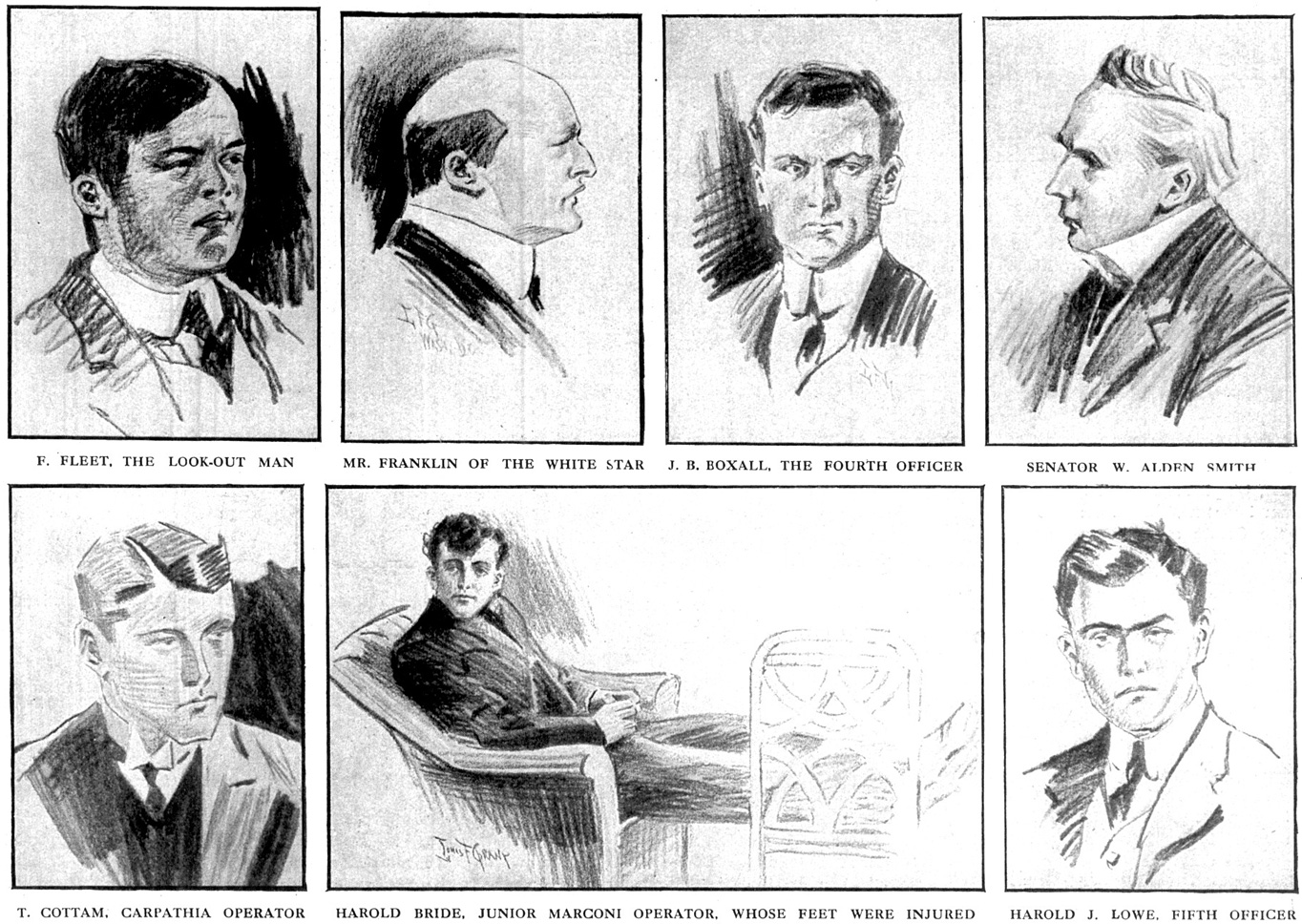 Witnesses who attended the United States Senate inquiry into the sinking of the RMS Titanic